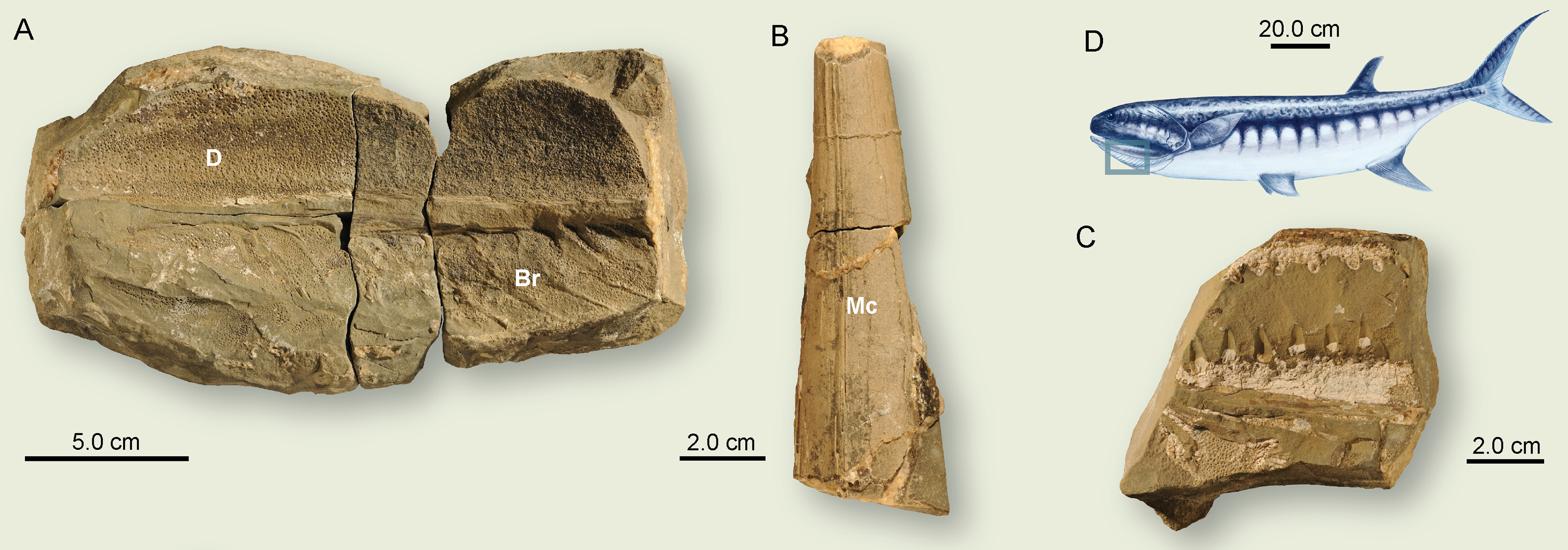 A-C. Assemblage of skull and lower jaw elements of a large Birgeria sp. (PIMUZ A/I 4301) from the Lusitaniadalen Member (Smithian), Vikinghøgda Formation, Stensiöfjellet, Sassendalen, Spitsbergen. Note that specimen (B) represents the infilling of the Meckelian canal. D. Position of the large specimen (A) on the reconstruction of animal indicated by blue rectangle.